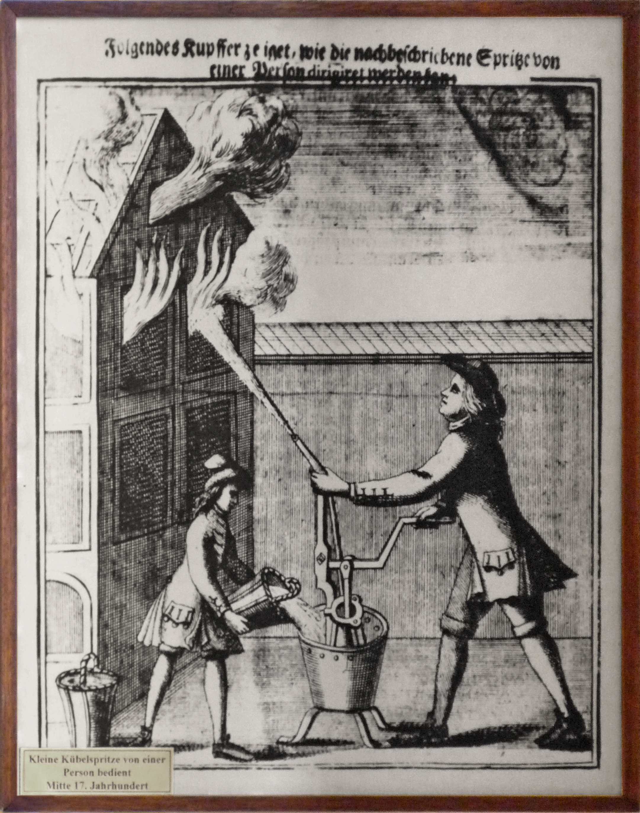 Small stirrup pump, which could be operated by one person. Engraving from the mid-17th Century fire museum in Salem at Lake Constance, Germany. Perhaps the simplest form of bucket tub type fire engine